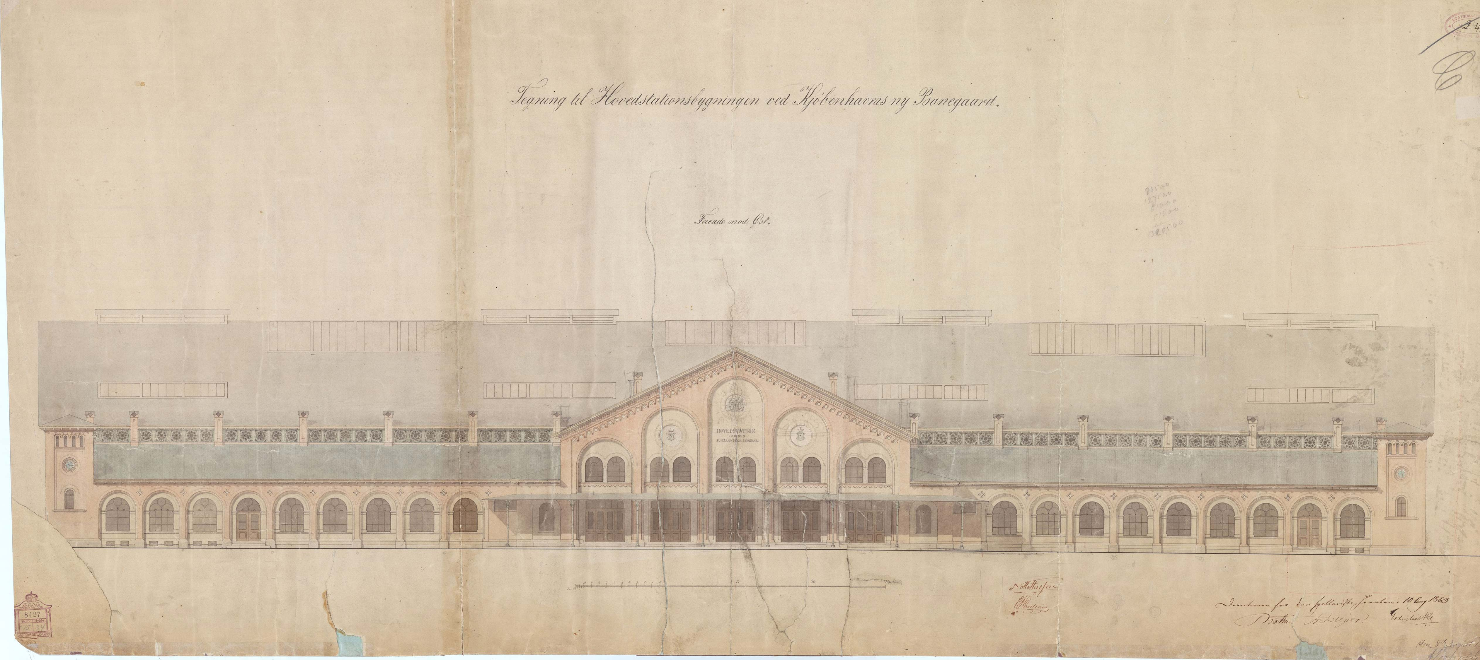 Elevation of the facade of the 2nd central station of Copenhagen, built 1863-1864.